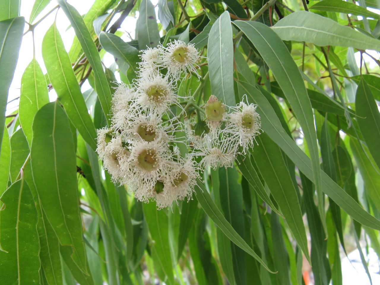 Angophora costata subsp. costata, Australian National Botanic Gardens, Canberra